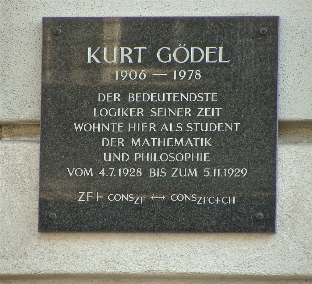 "The greatest logician of his time lived here as a student of mathematics and philosophy from July 4, 1928 - November 5, 1929." Lange Gasse 72, 8th District, Vienna